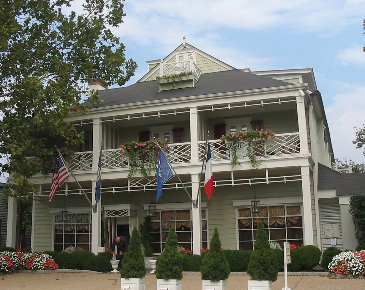 Cropped from an image taken by me for Wikipedia